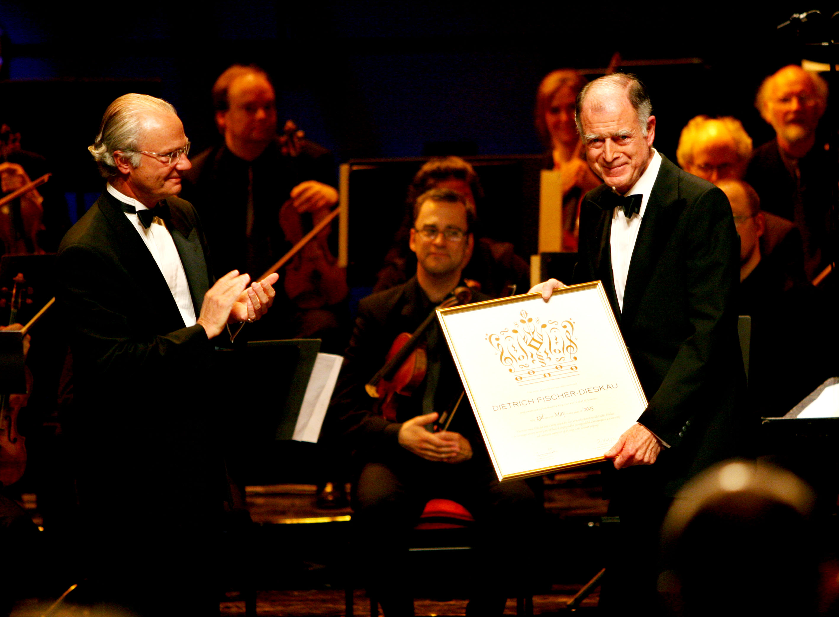 Thomas Fischer-Dieskau, nephew of Dietrich Fischer-Dieskau, receives the 2005 Polar Music Prize in place of his uncle from the hands of His Majesty, King Carl XVI Gustaf of Sweden at the Stockholm Concert Hall.